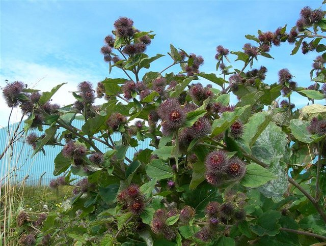 Lesser Burdock Lesser Burdock (Arctium minus) at Dipple shore.